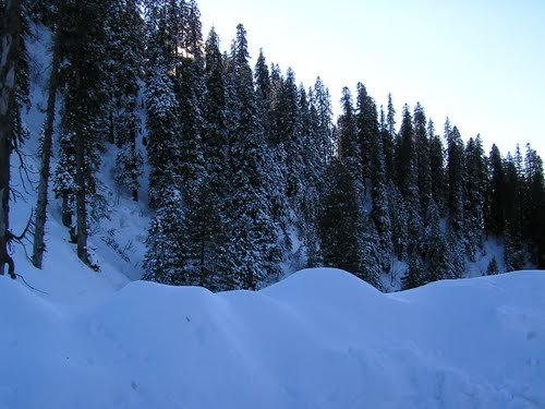 Snow in Hazara hills, 2011 view, photo taken by me